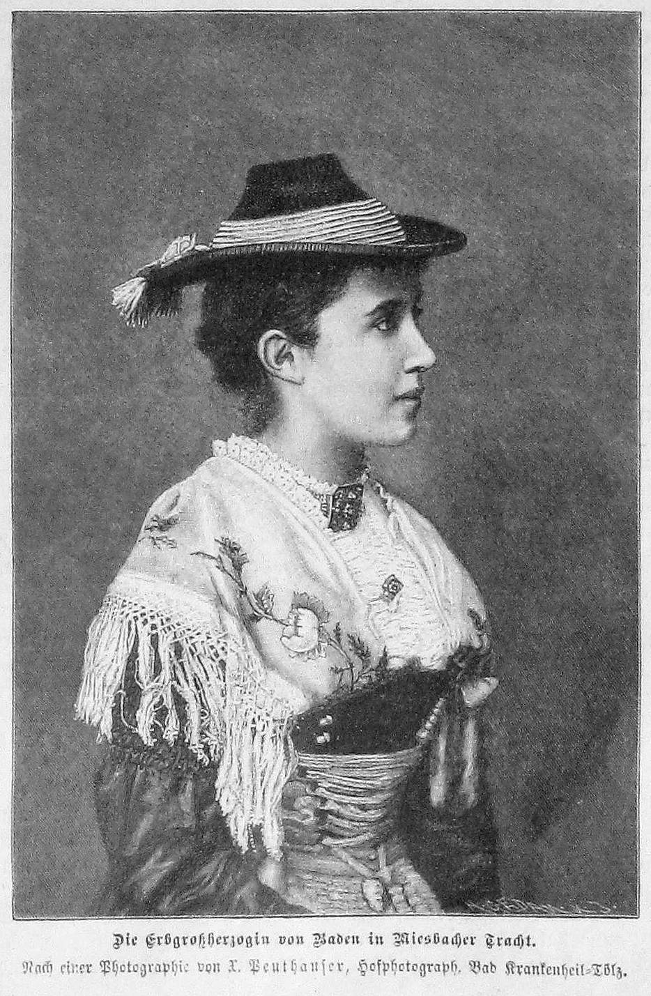 Image from page 409 of journal Die Gartenlaube, 1886.